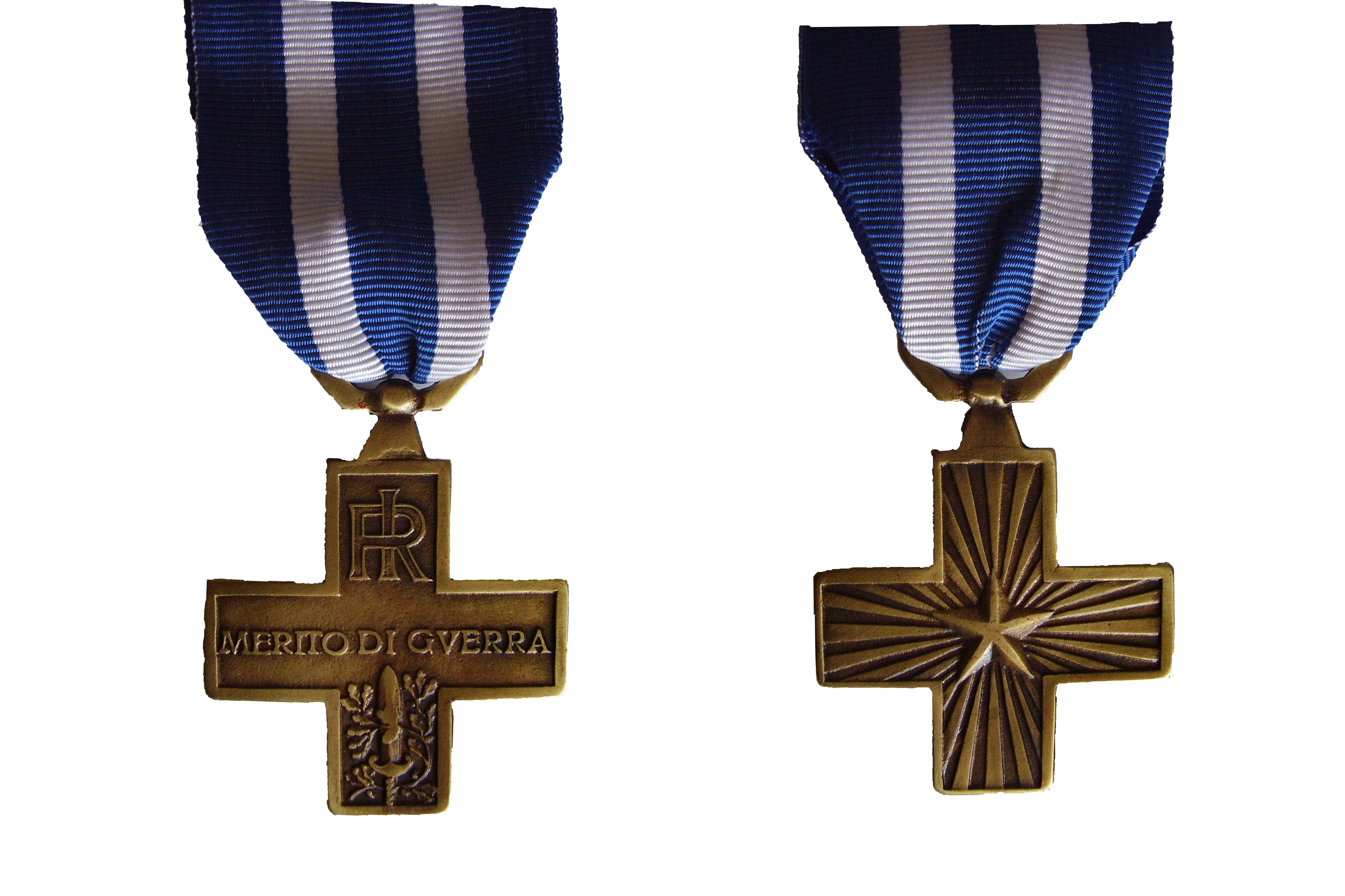 Cross to the merit of war, Italian Republic